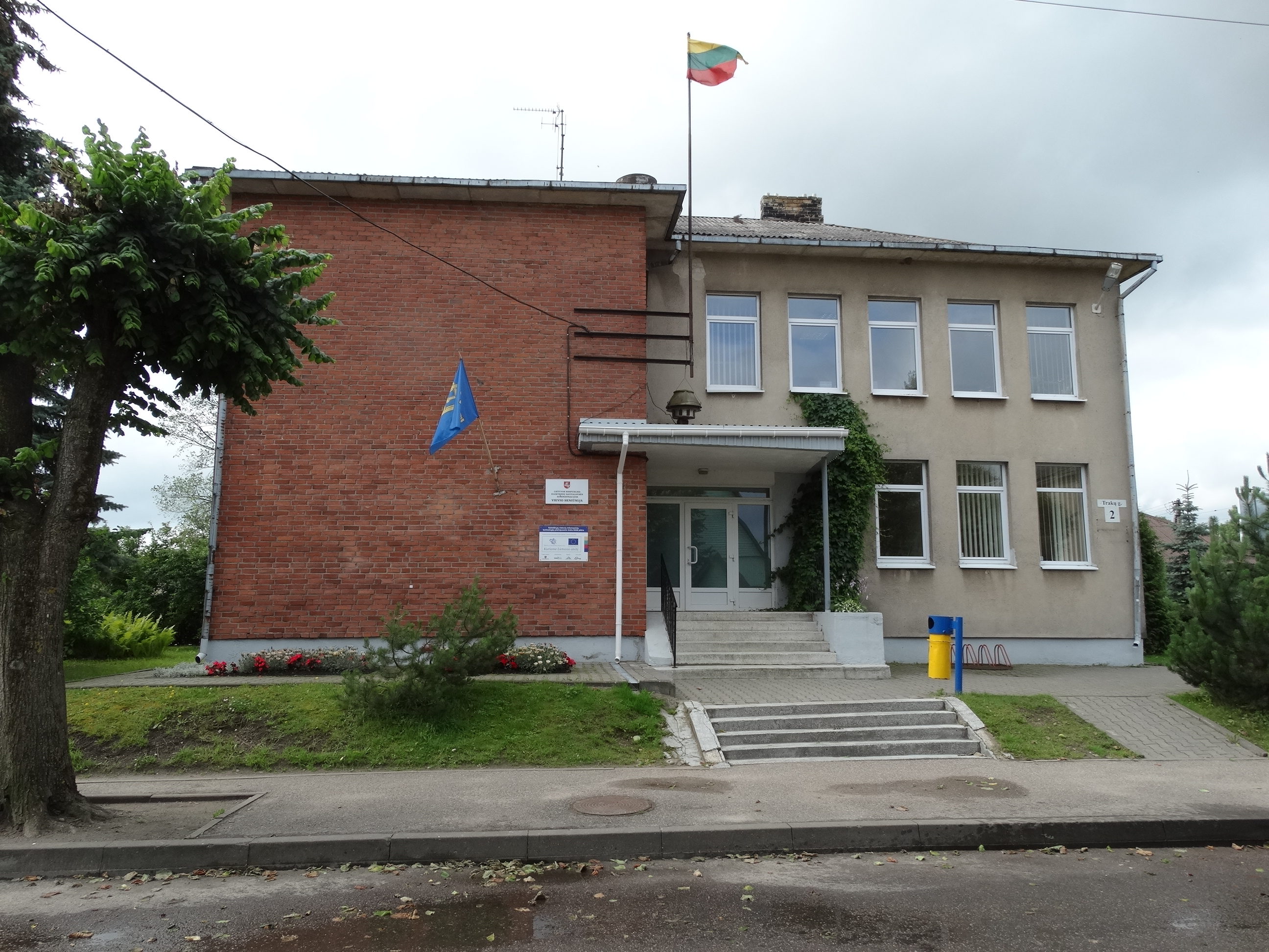 Eldership, Vievis, Lithuania